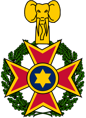 The badge of the National Order of Chad, as depicted on the Coat of arms of Chad